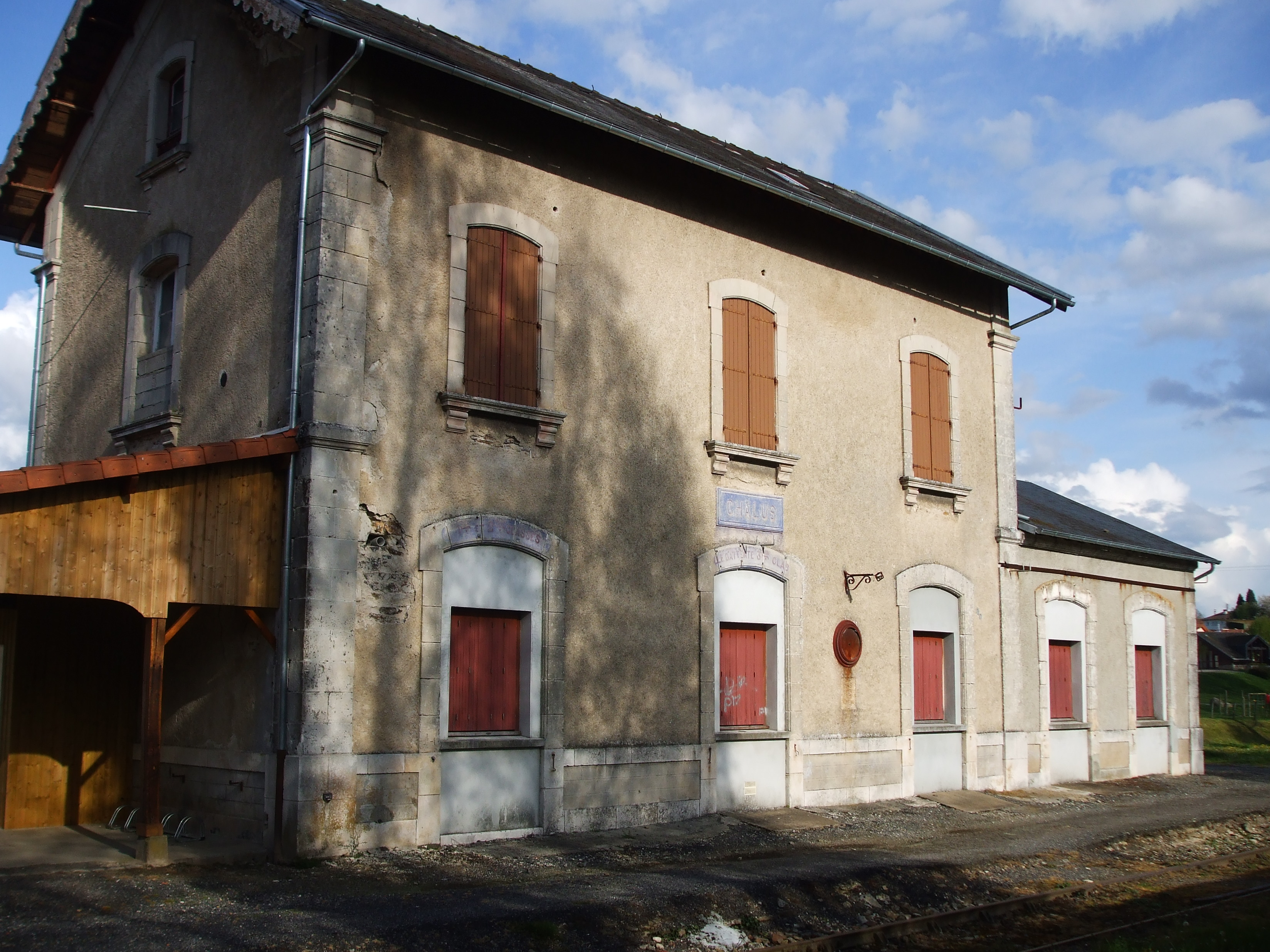 Châlus, Haute-Vienne, France, disused railway station